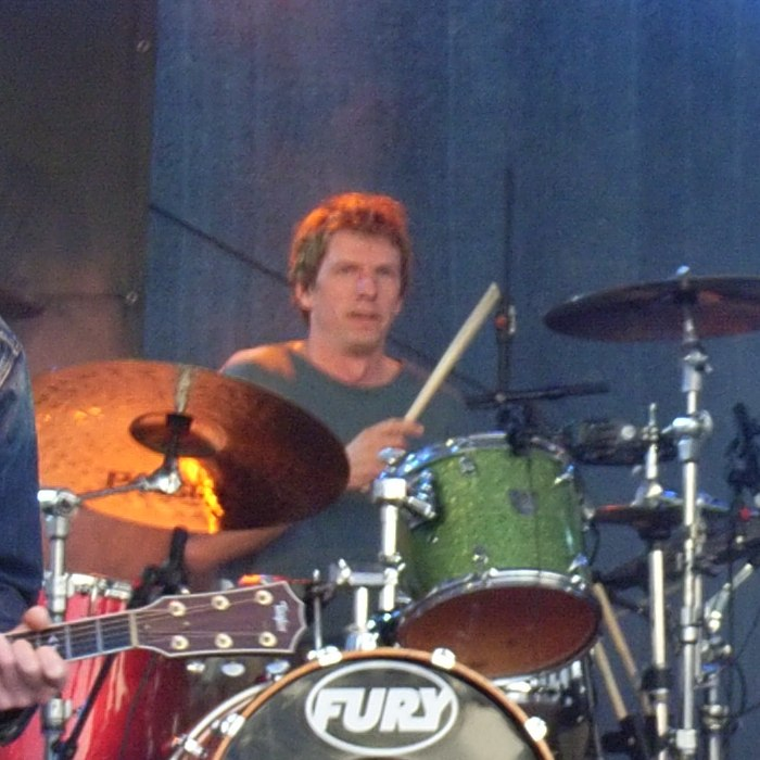 Rainer Schumann from Fury in the Slaughterhouse